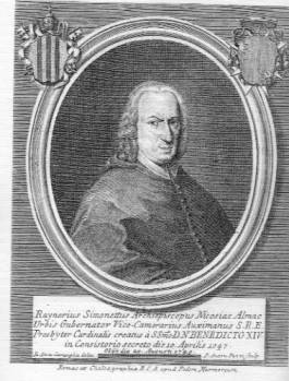 Cardinal Raniero Felice Simonetti (1675-1749)